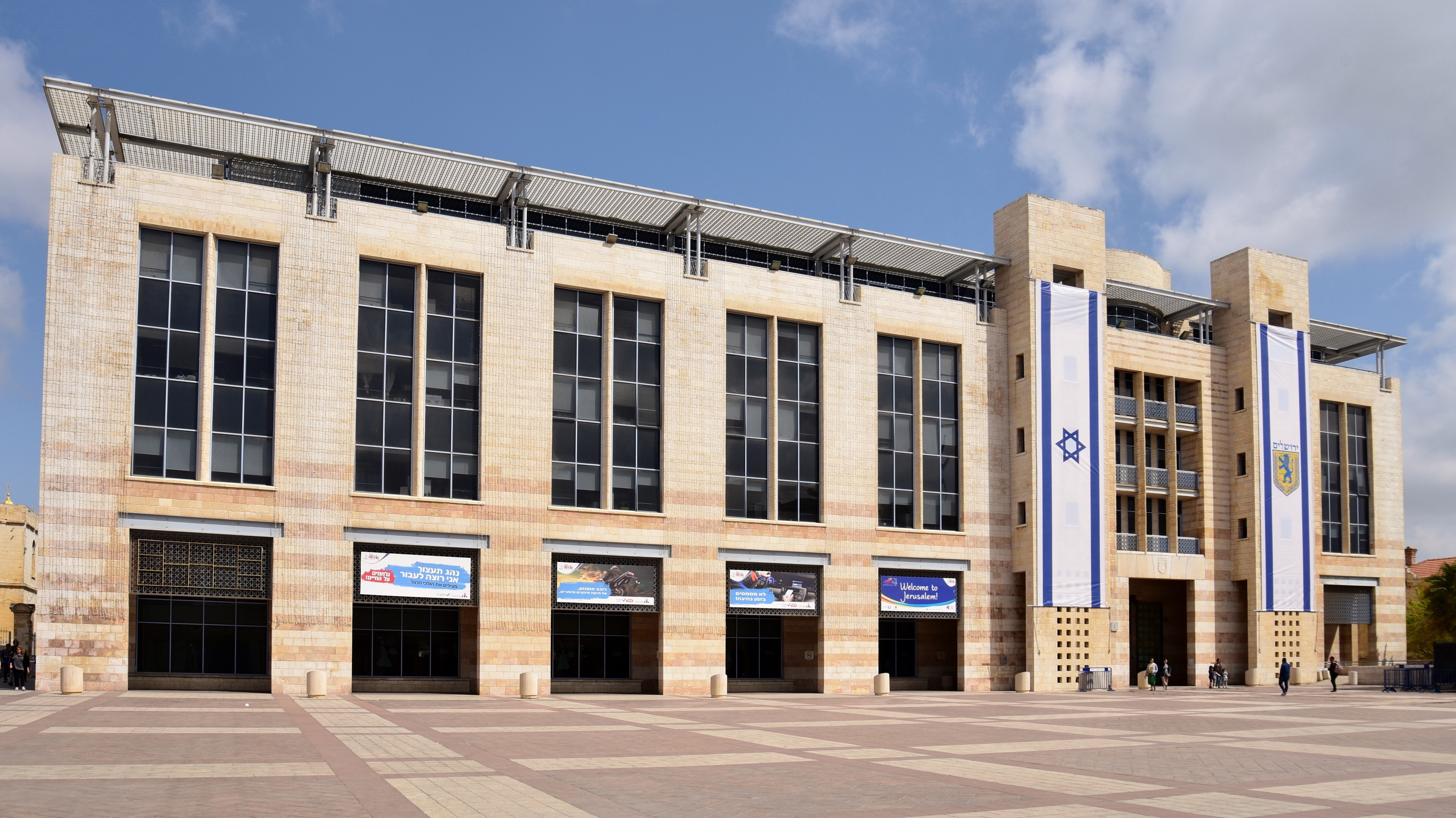 View of the Jerusalem new town hall from Safra Square, Jerusalem